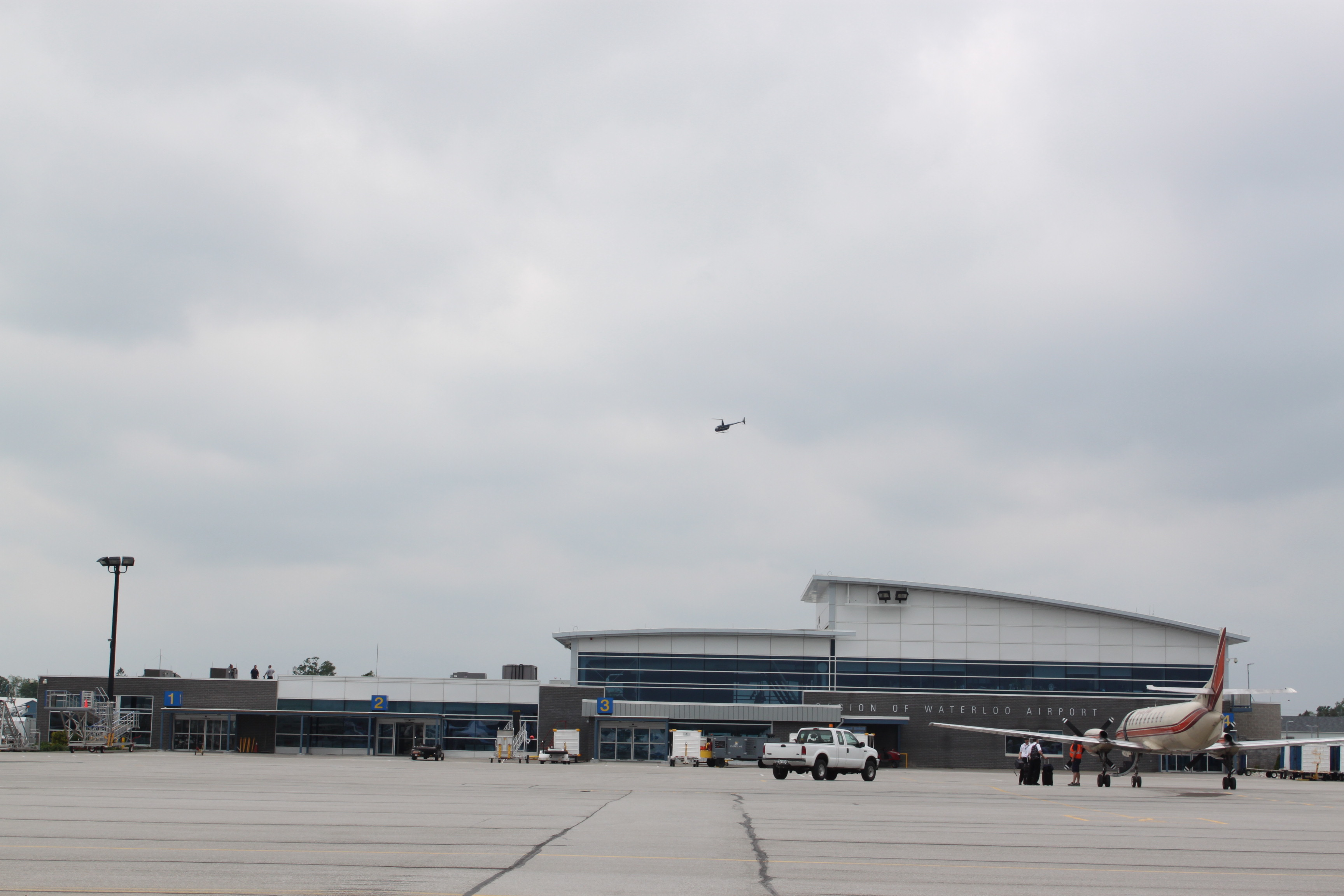 Waterloo Airport Terminal as seen from Taxiway Bravo (beside Runway 32).